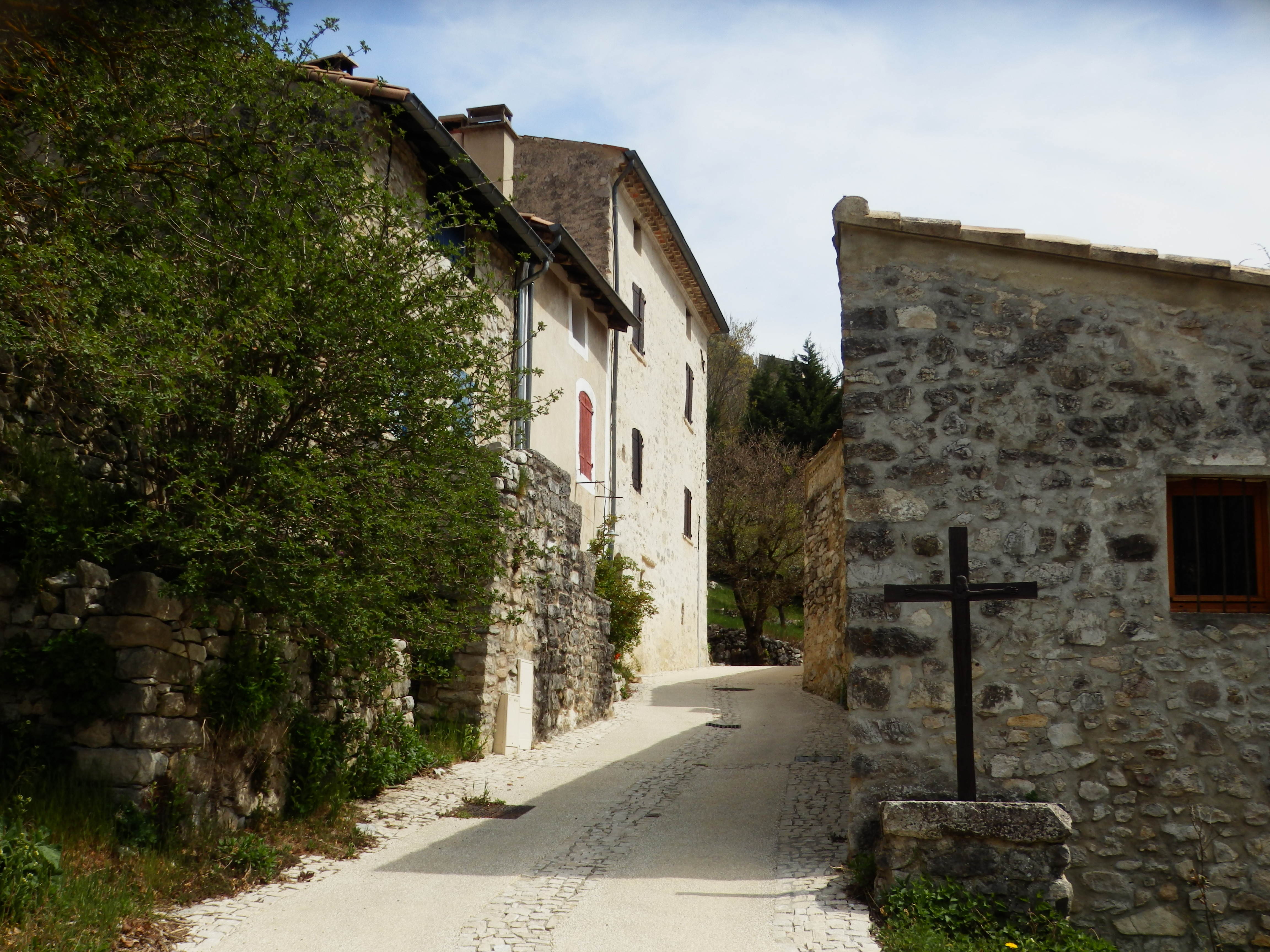 Vieux Village, Teyssières, Drôme, France